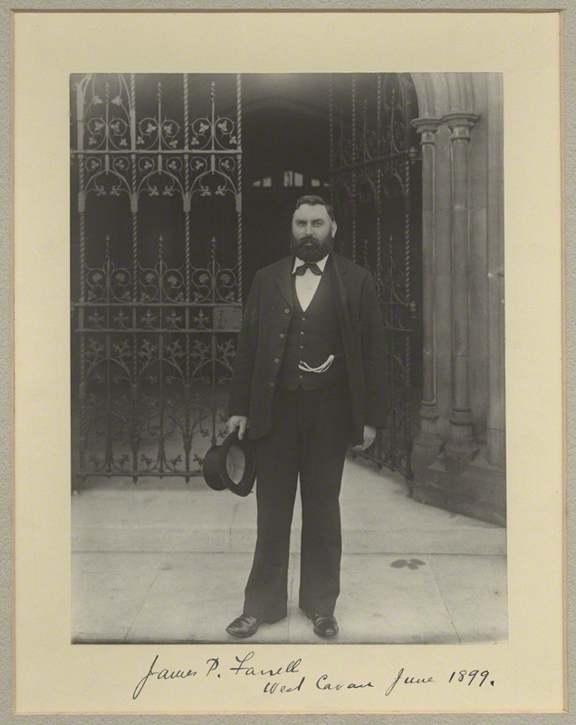 James Patrick Farrell MP by Sir (John) Benjamin Stone, platinum print in card window mount, June 1899